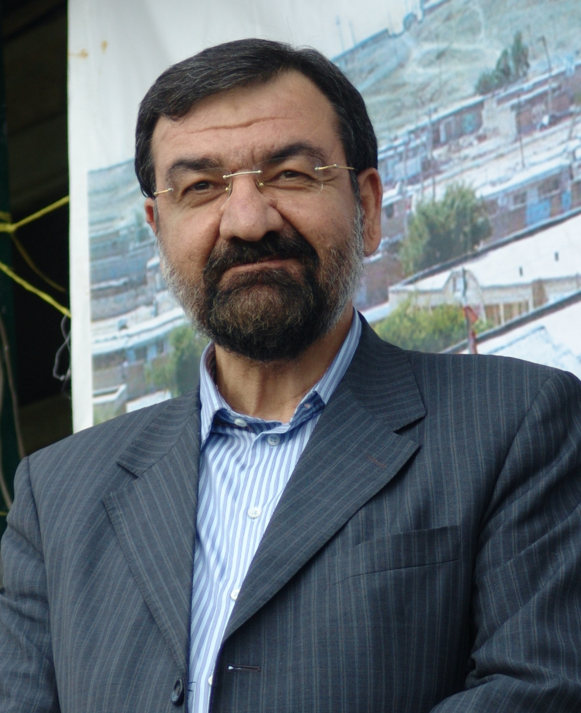 Mohsen Rezaee In Rudaki high school in Haftkel